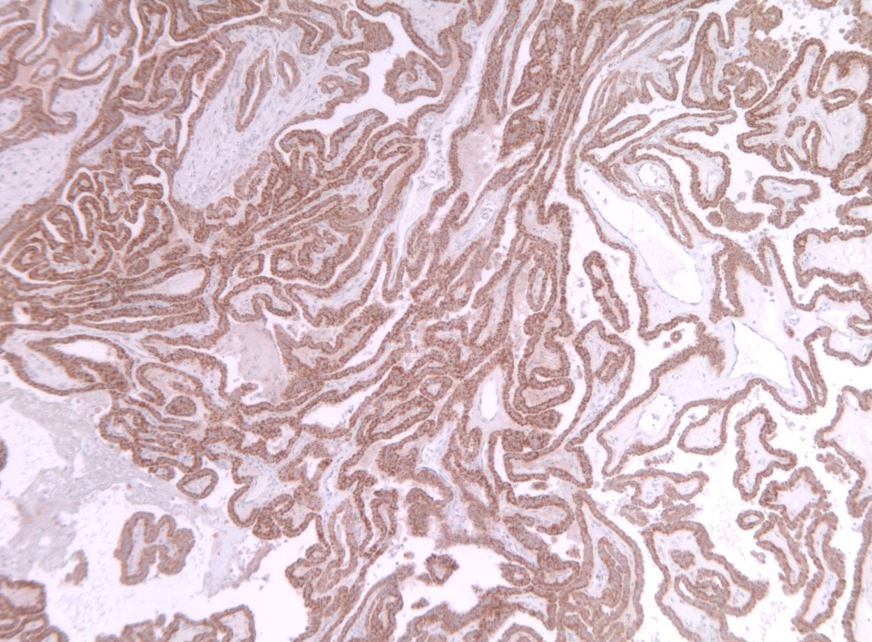 Histological finding of a papillary thyroid tumour. In brown, cells BRAF mutated are shown. Himmunohistochemical technique